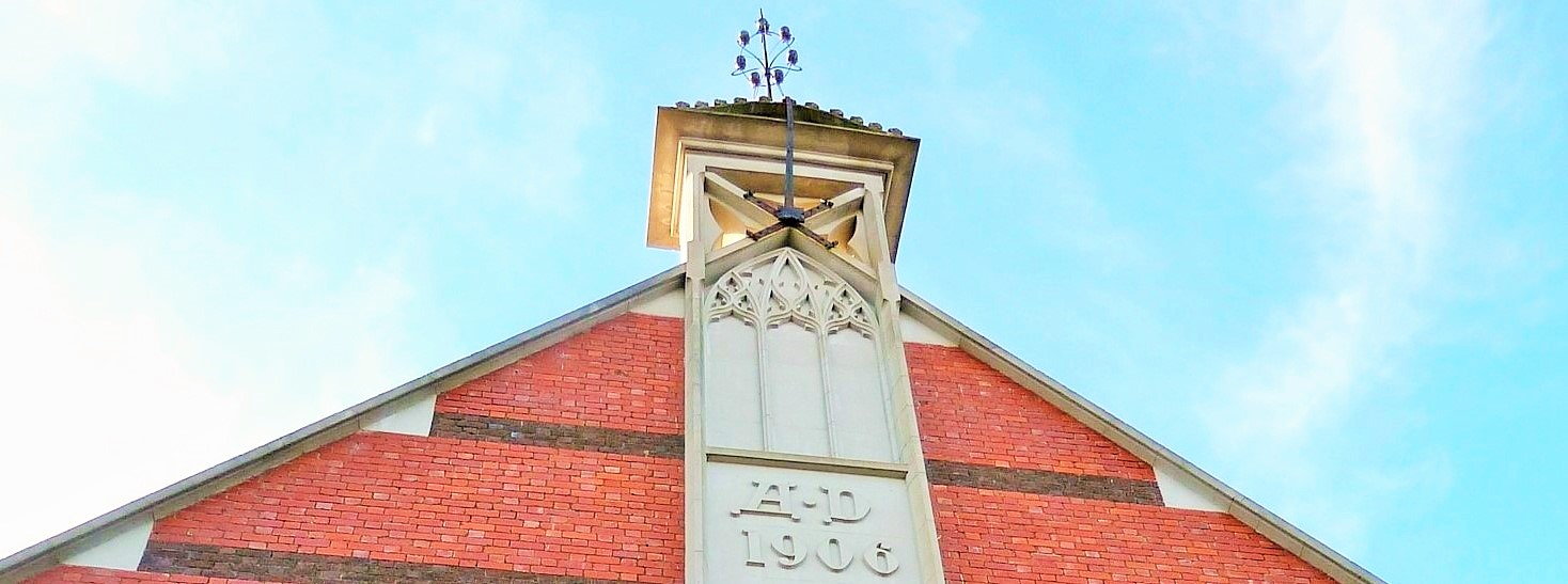 Thistle and Saltire gable and wrought iron finial